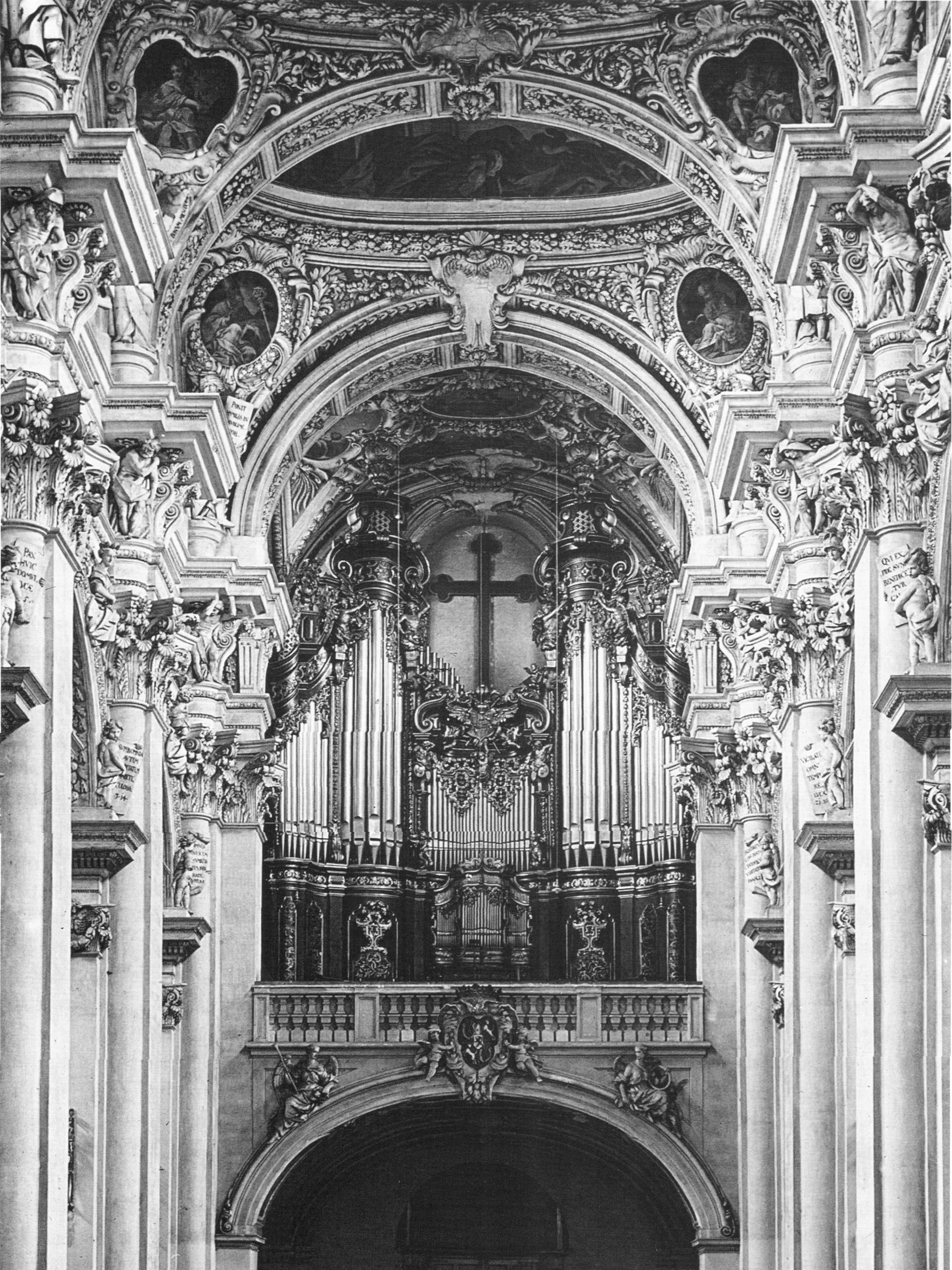 Passau Cathedral, Organ 1890